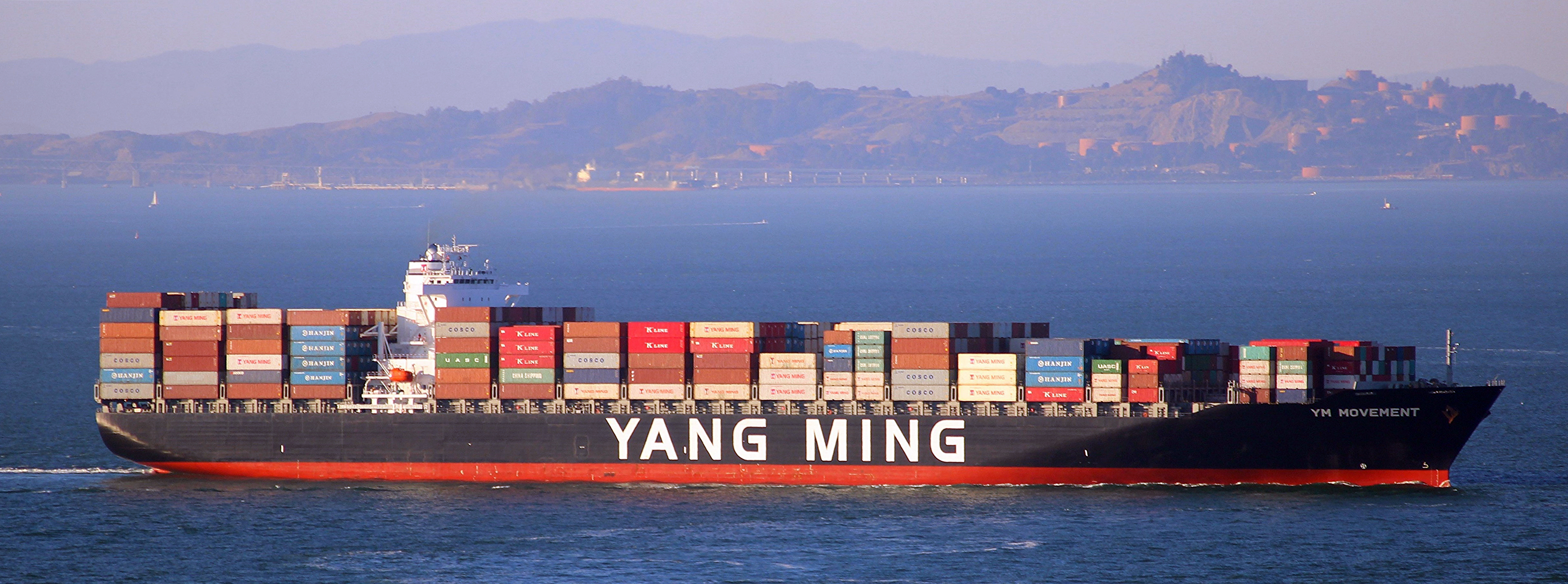 YM Movement (IMO 9660011) at San Francisco Bay